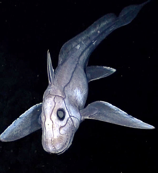 A deep-sea chimaera seen by the Little Hercules in the Sulawesi Sea as part of the NOAA Okeanos Explorer Program. Its snout is covered with tiny pores capable of detecting perturbations in electrical fields generated by living organisms.